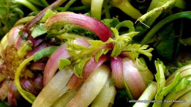 نباتات برية سورية تؤكل